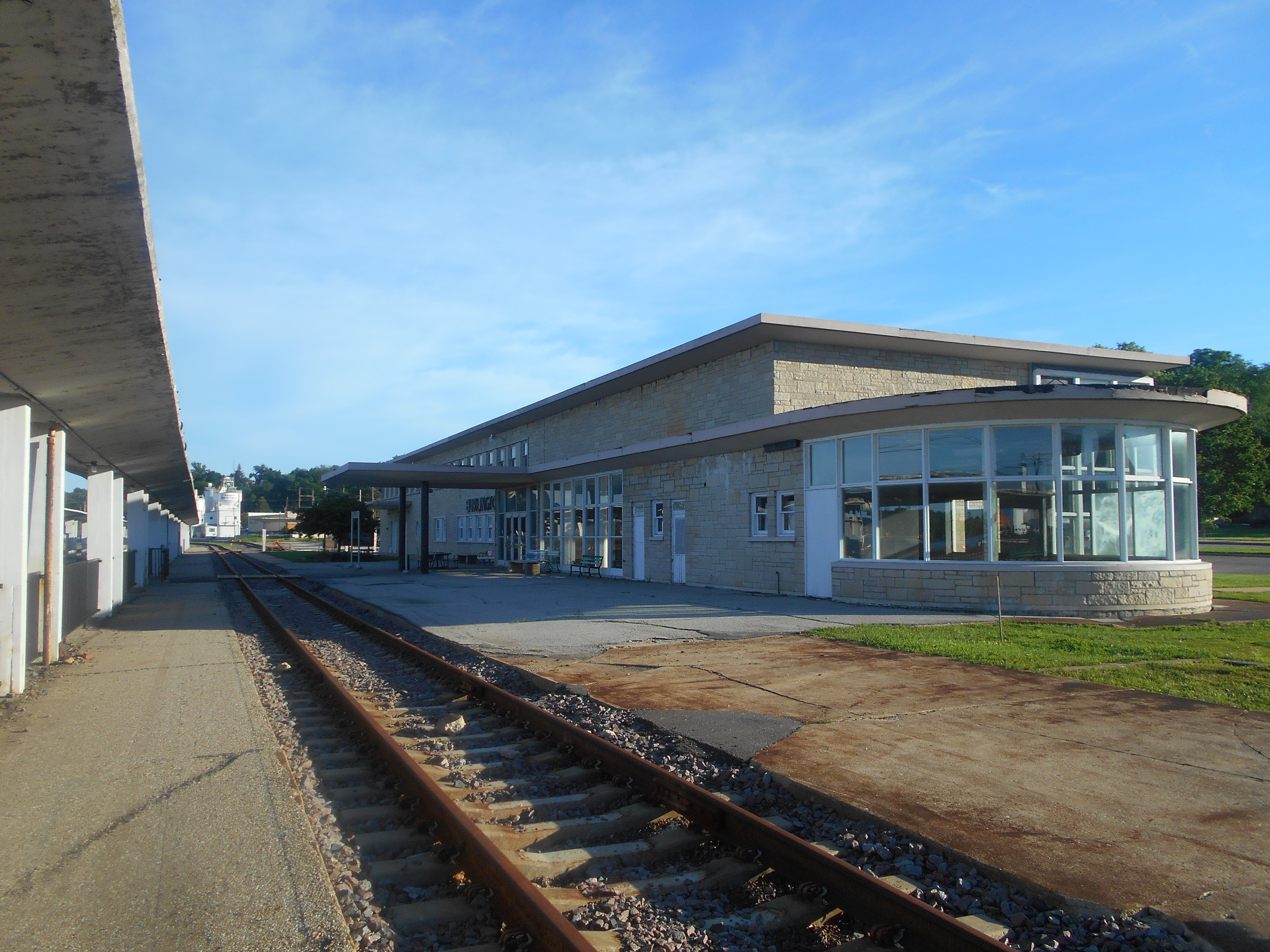 The Burlington, Iowa Amtrak station in June 2014.